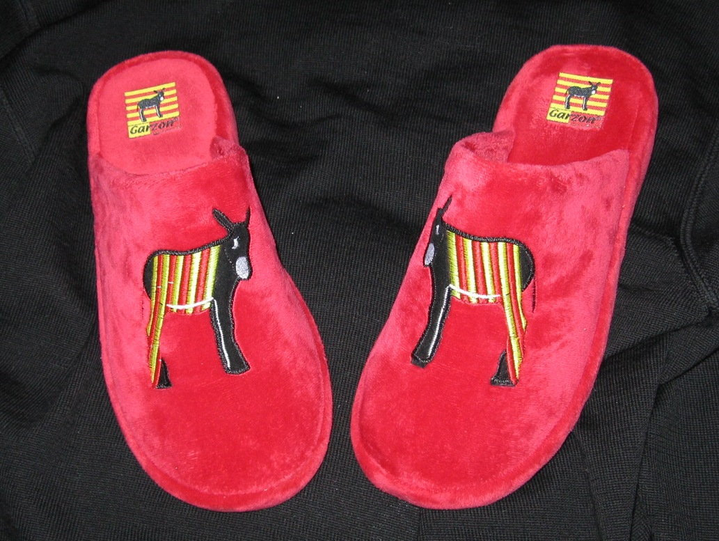 Catalan Donkey on slippers (Creation of 2007 for woman)